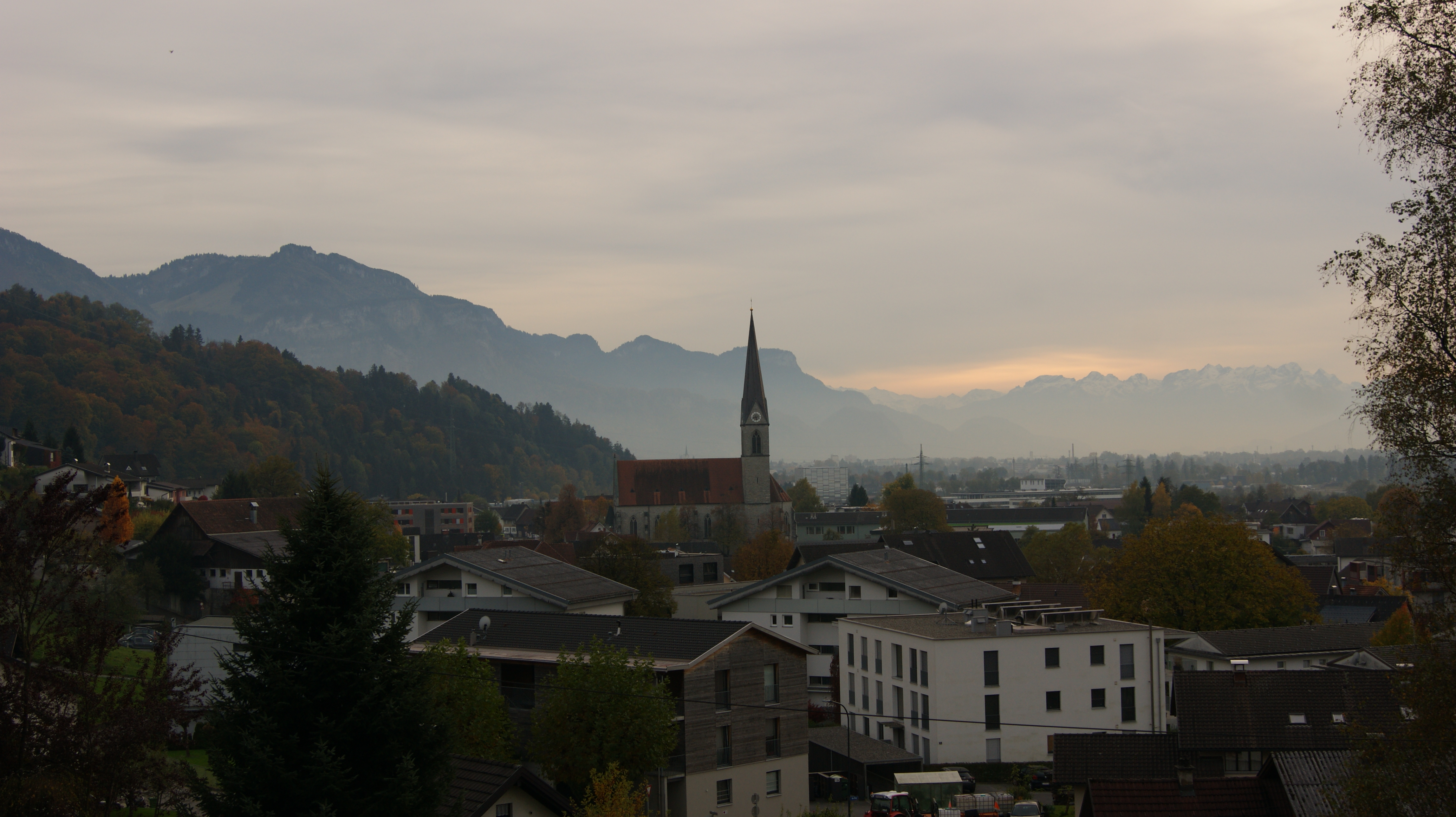 View in the autumn over Schwarzach in Vorarlberg, Austria and Dornbirn in the Alpine Rhine Valley.